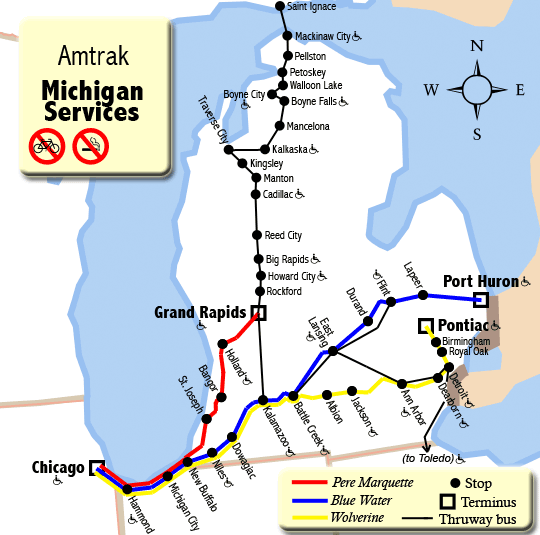 Map of Amtrak Michigan Services -- it consists of three lines, the Pere Marquette, the Blue Water, and the Wolverine.